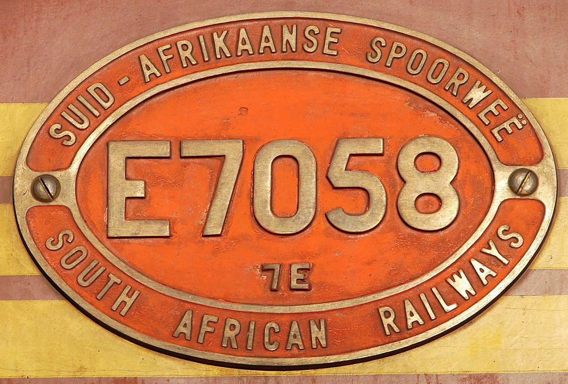 SAR Class 7E E7058 number plateLocation: Beaufort West, Western Cape